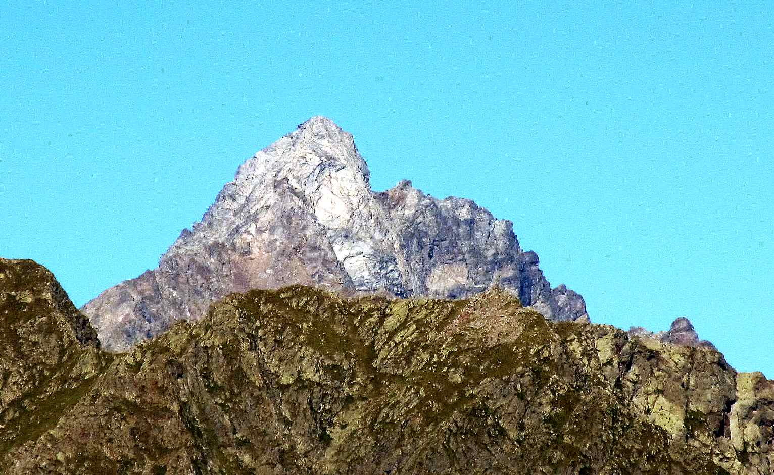 Corno Bianco (Pennine Alps, Italy) from cima d'Ometto